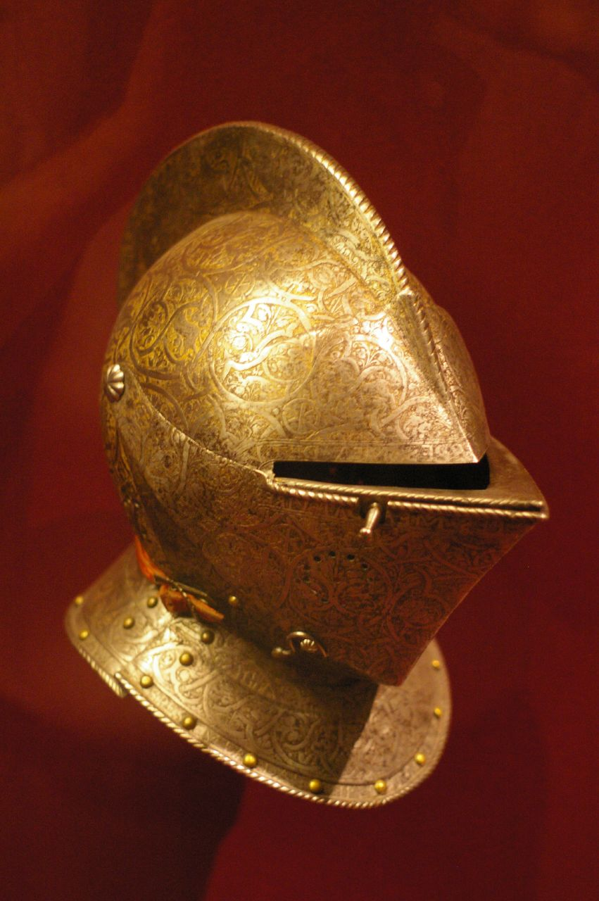 French bascinet - 16th century- retail armor Claude Gouffier Grand Squire of France, Metropolitan Museum of Art, New York City France, 1555-60. The color balance on this photo is 'way too yellow, but since the helmet was originally gilded, it does give some idea of the original appearance.